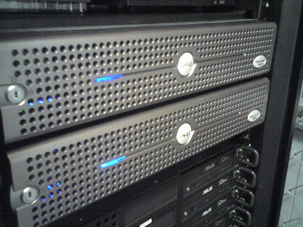 Dell PowerEdge Servers running various services for Dorsia